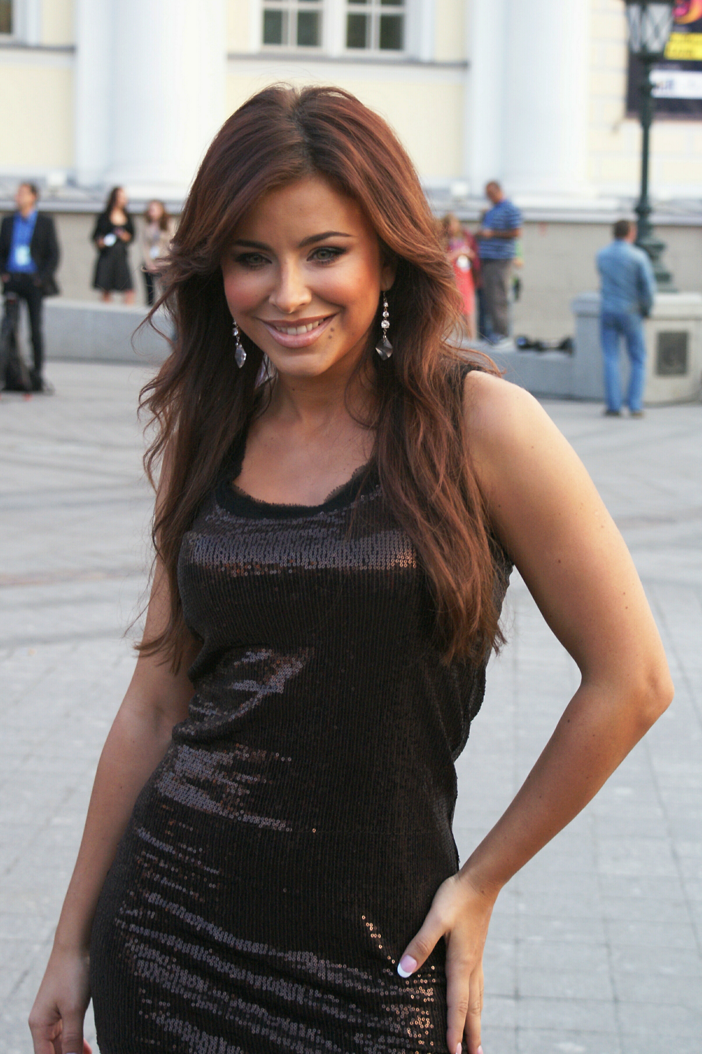 Ani Lorak in Moscow on May 10, 2009